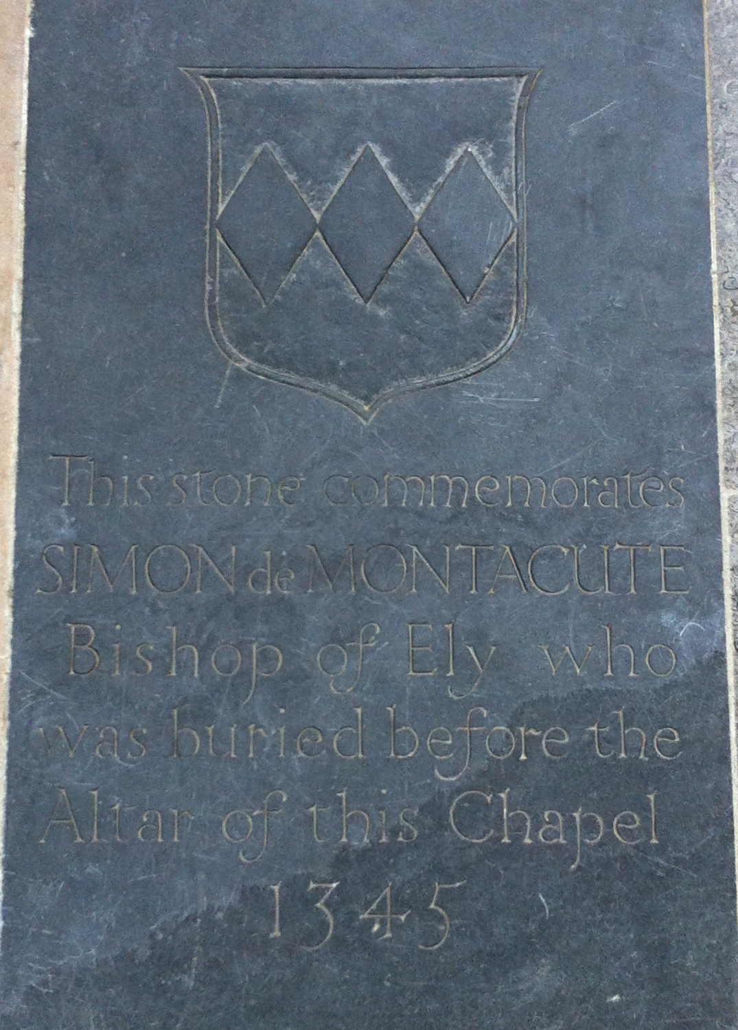 This stone commemorates Simon de Montacute, Bishop of Ely, who was buried before this Altar of this Chapel. 1345.